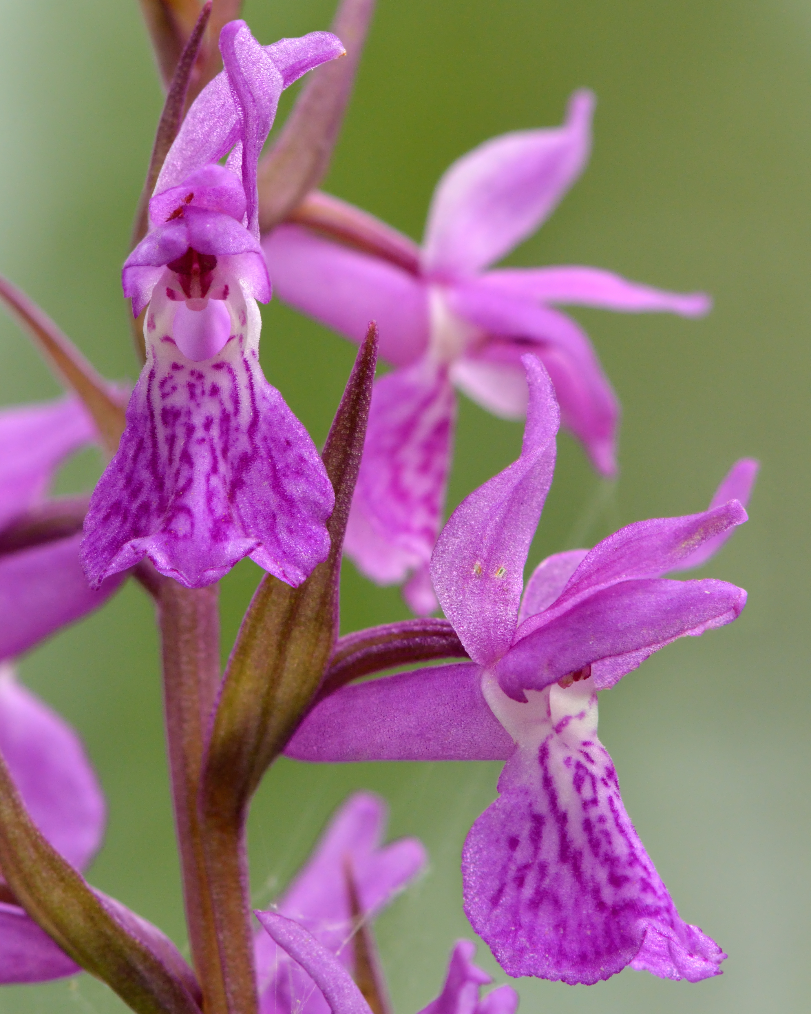 Flowers of the narrow-leaved marsh-orchid, size (width × height) ca 11×18 mm.